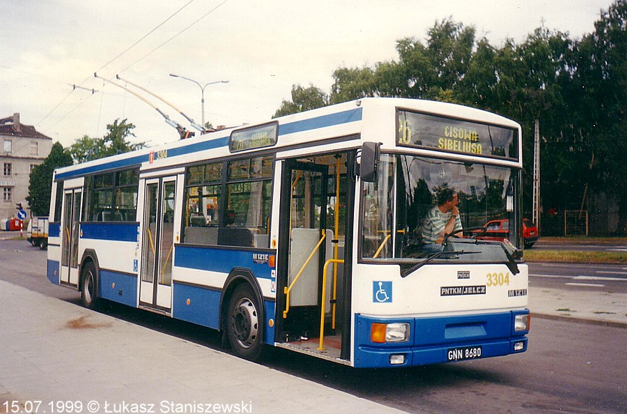 First polish lowfloor trolleybus Jelcz M121E shot in Gdynia at Orłowo SKM "Klif" loop. Year built 1999.